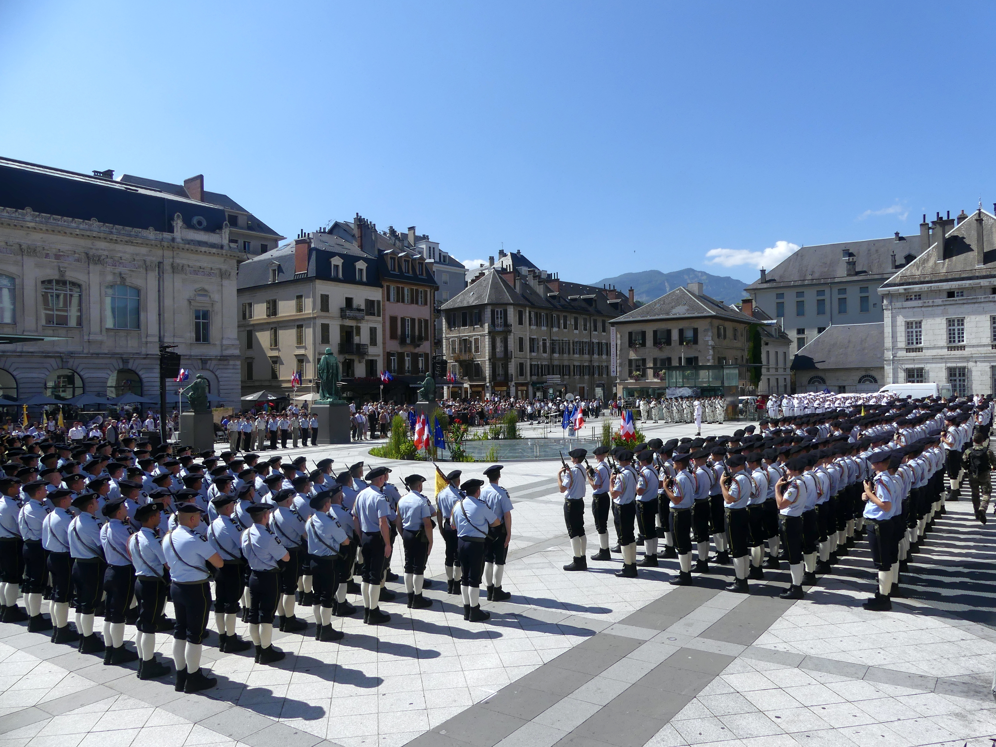 Sight of military units from the 13ème Bataillon de chasseurs alpins of Chambéry in Savoie (elite mountain infantery), standing in front of the city courthouse during the 2018 change of command.